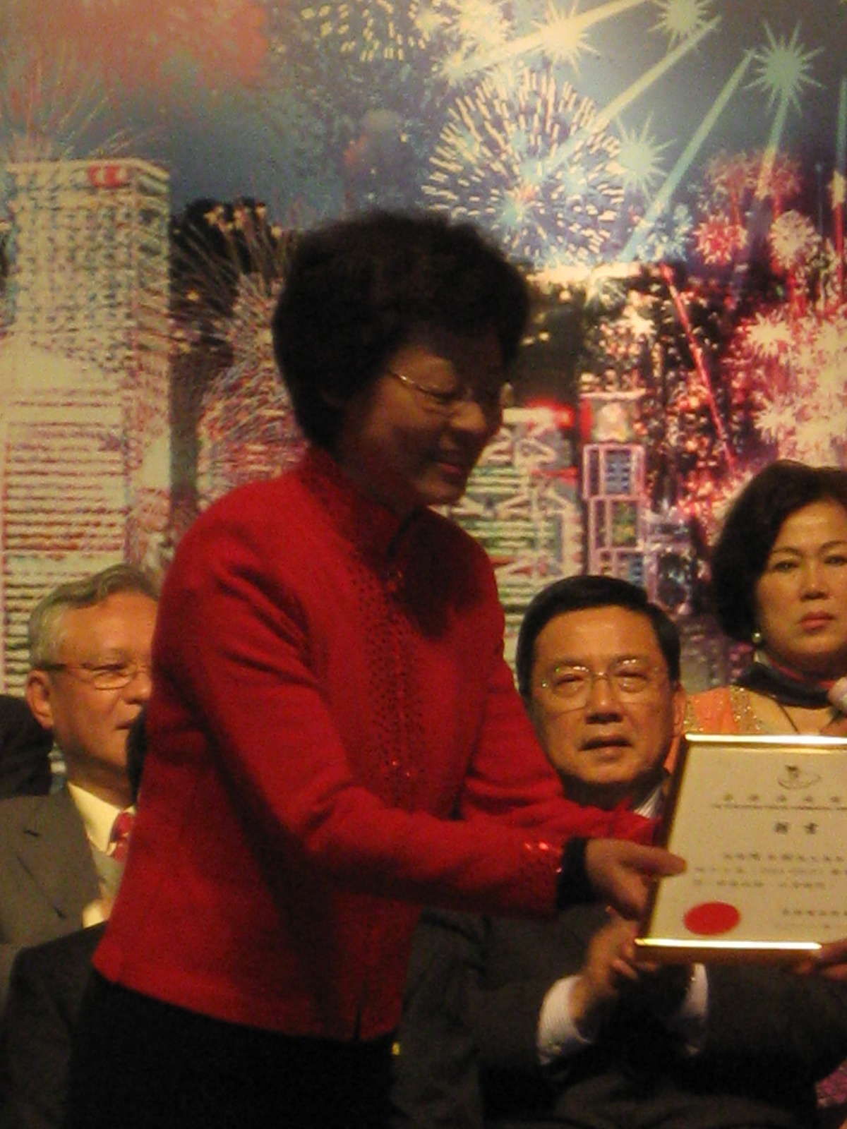 Tan Kam Mi-wah, Pamela